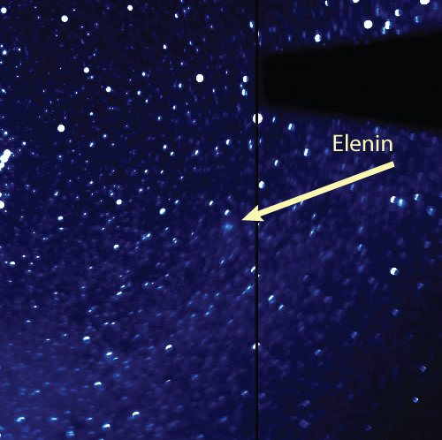 STEREO-B HI2 image of comet Elenin (C/2010 X1) on 1 August 2011. The comet was only seven million kilometers from STEREO-B when this image was taken.